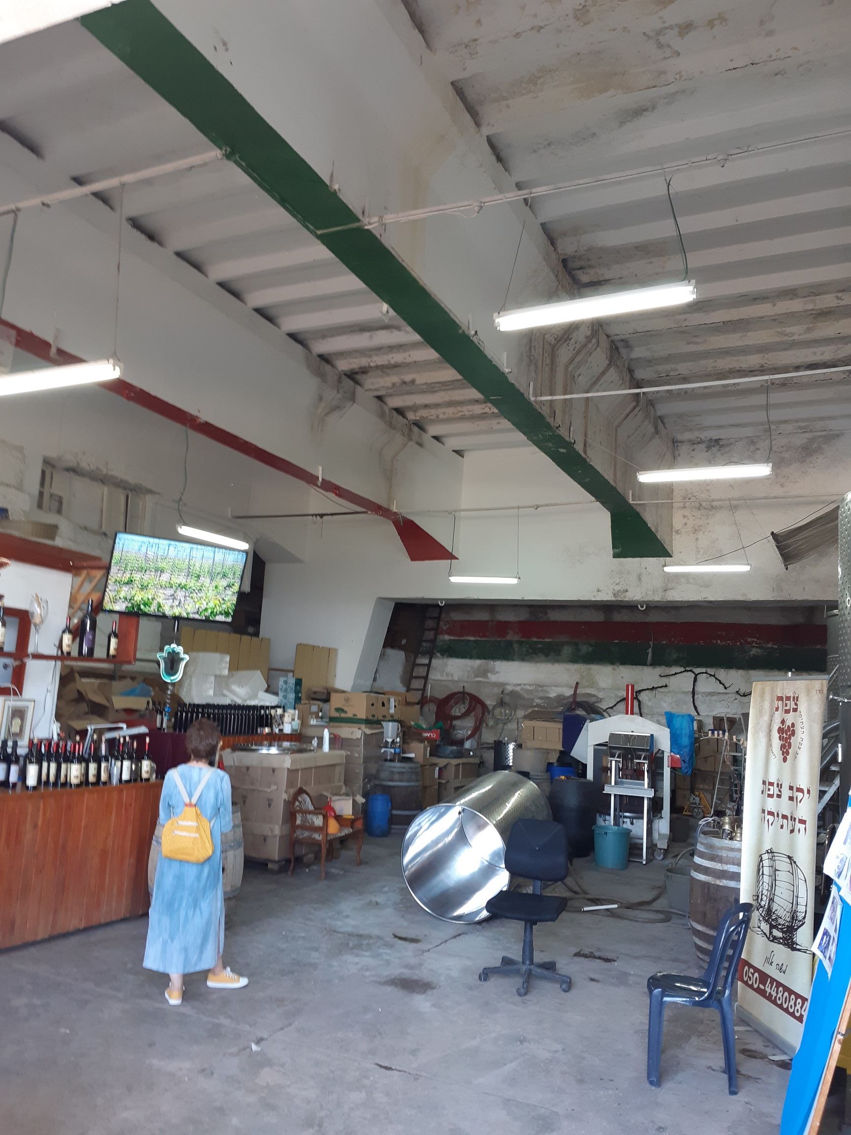 Safed Shopping Center, Beit Eshtam